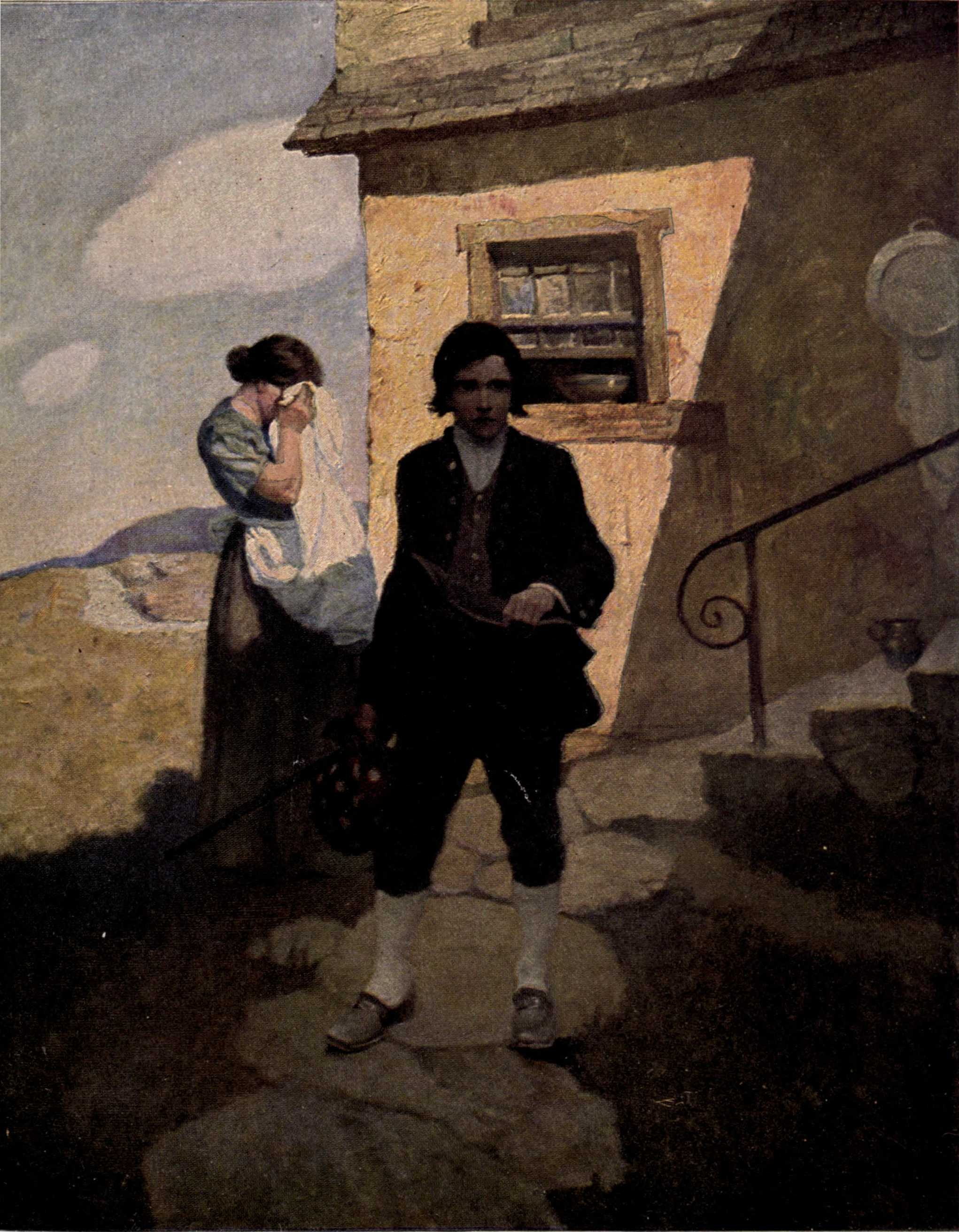 Jim Hawkins leaving his mother and the Admiral Benbow Inn. Artwork by N. C. Wyeth.